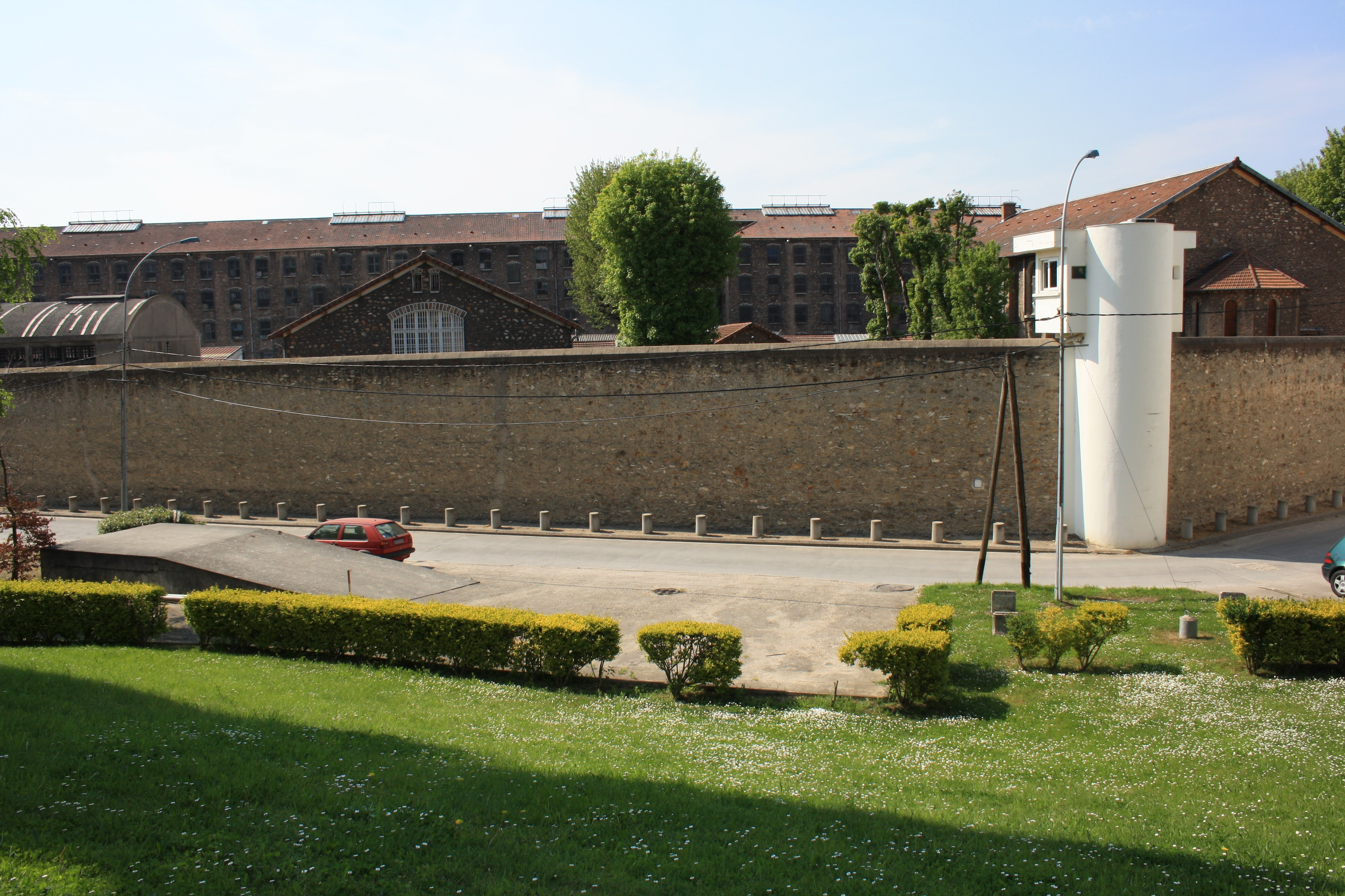 Prison in Fresnes near Paris, France